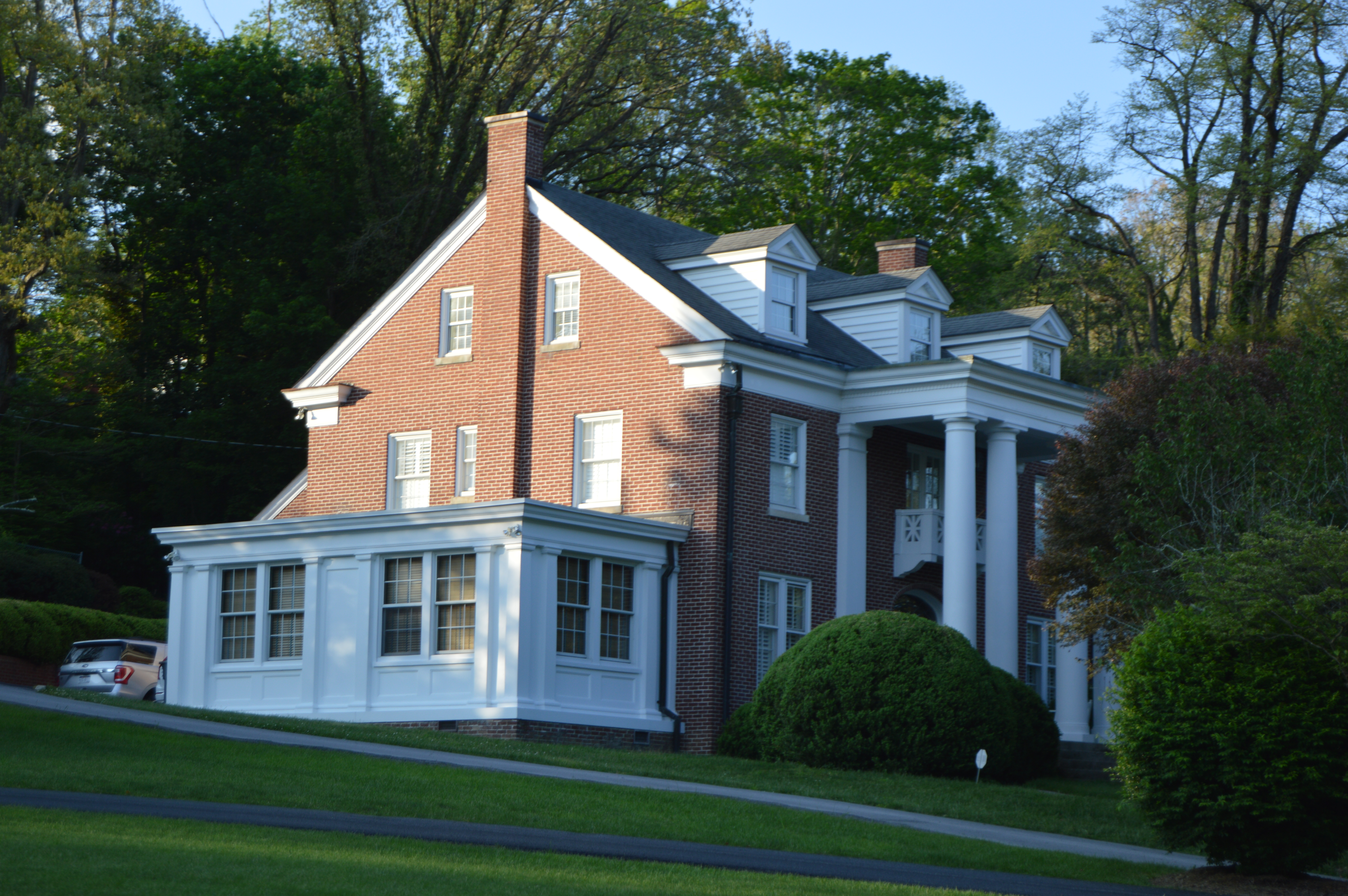 Front and western side of the house on Oakhurst Avenue just west of Ledge Street in Bluefield, West Virginia, United States. It is part of the South Bluefield Historic District, a historic district that is listed on the National Register of Historic Places.